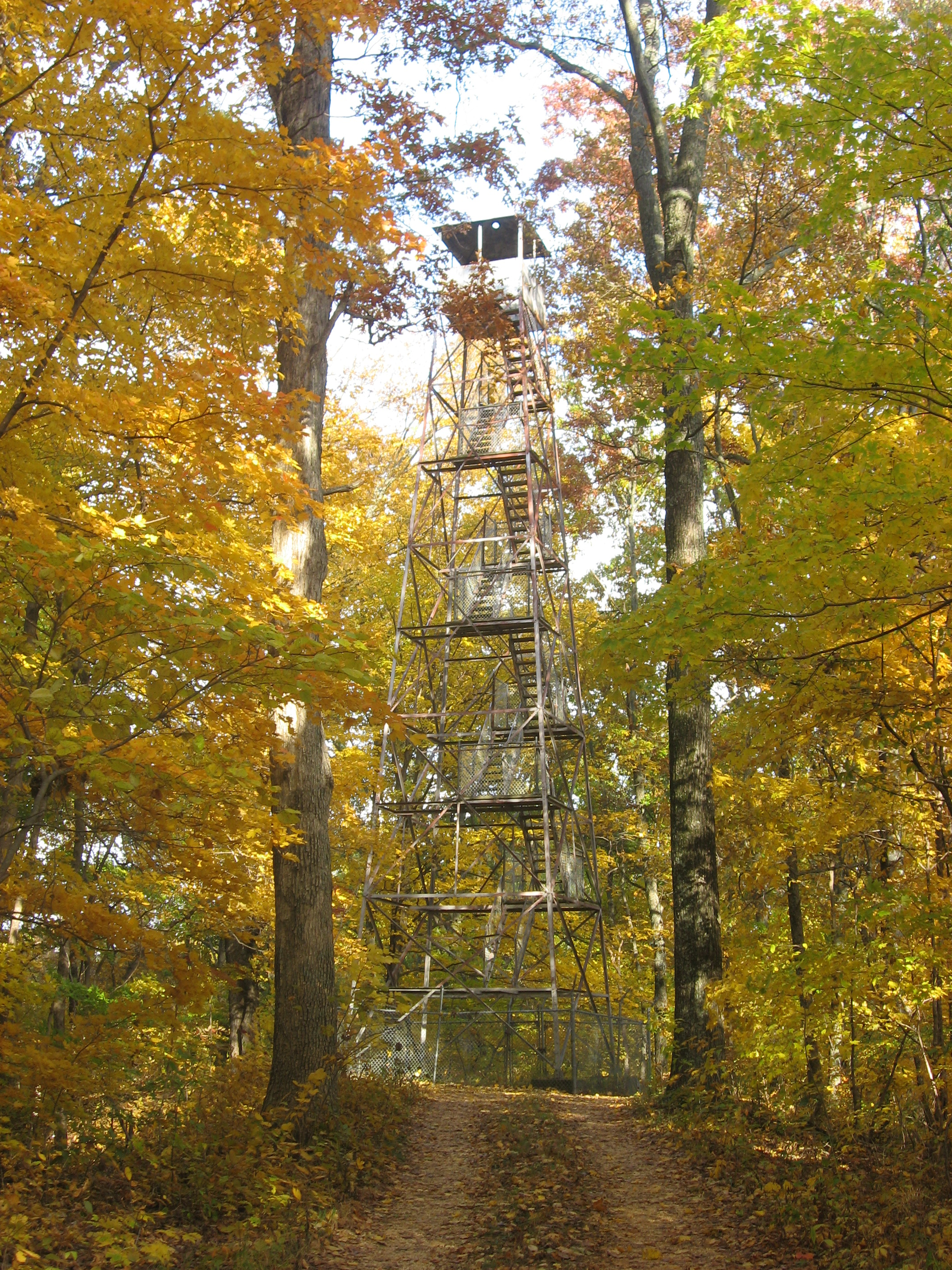 View from the west of the Union Lookout, located in Trail of Tears State Forest northwest of Jonesboro in Jonesboro District No. 1 Precinct, Union County, Illinois, United States. Built in 1934, it is listed on the National Register of Historic Places.